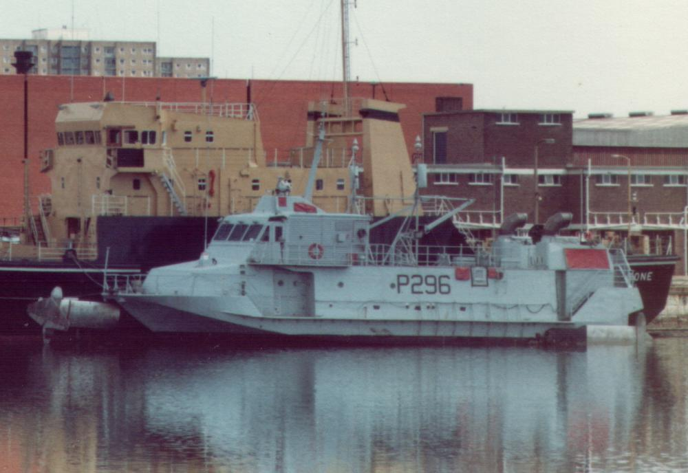 Boeing Jetfoil HMS Speedy at Portsmouth in 1982